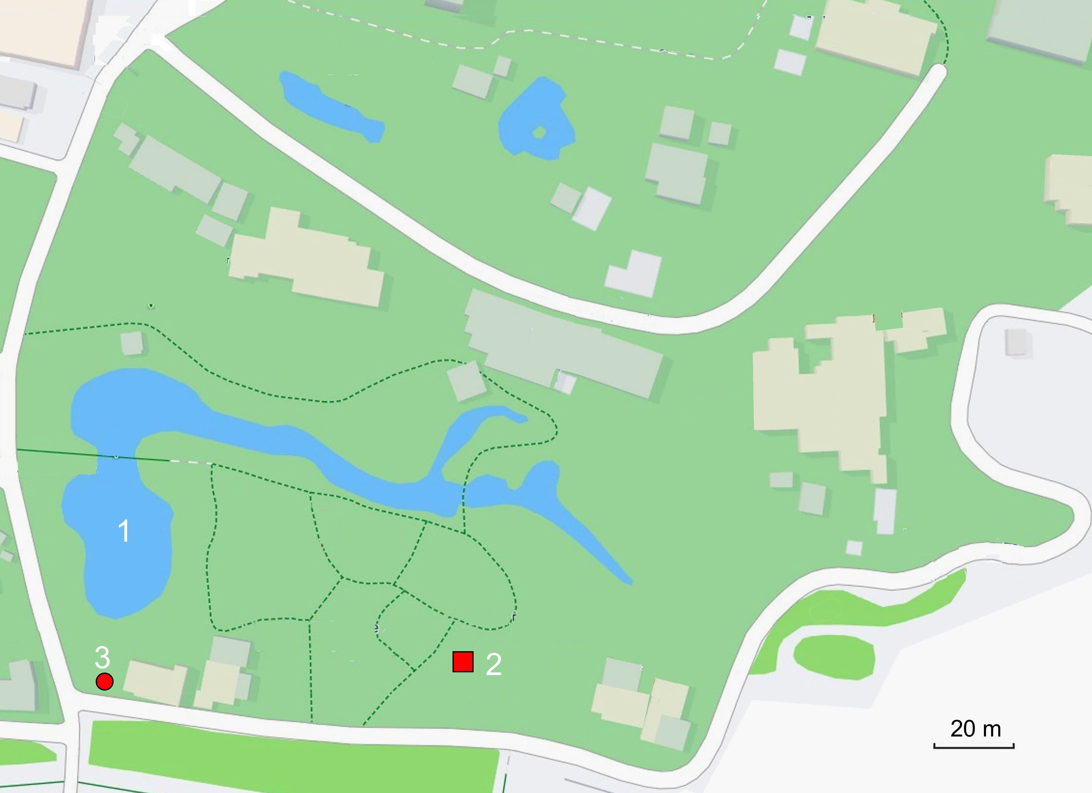 Maruyama Parc Kyôto Layout of central part